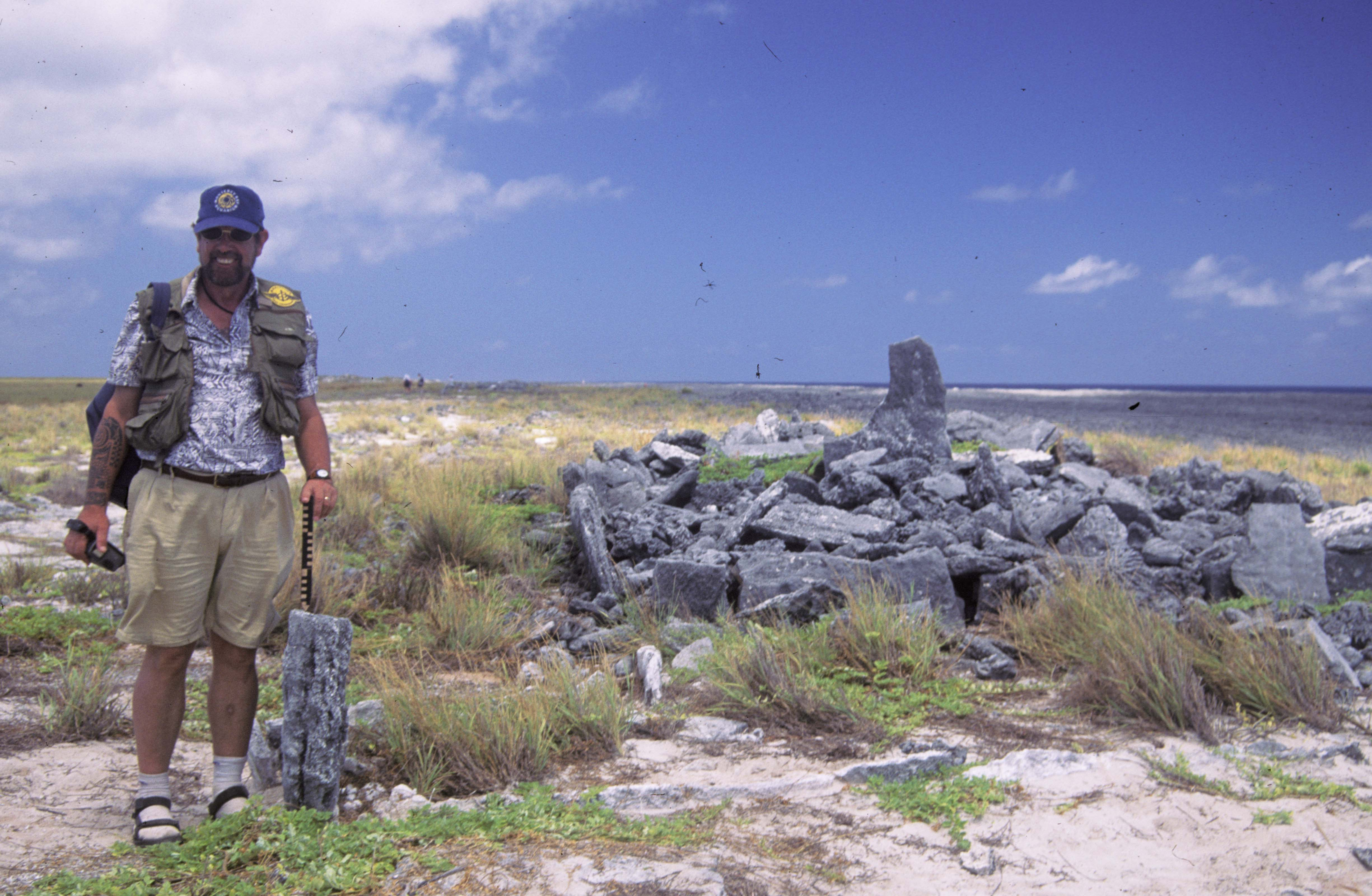 An Easter Island archaeologist stands near (possibly) early polynesian ruins on Malden Island, Line Islands, Kiribati. Original field notes: These are of pre-European origin, possibly from early Polynesians traveling north towards Hawaii from French Polynesia